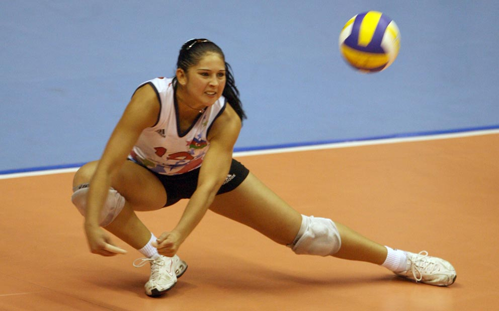 photo of valeriya